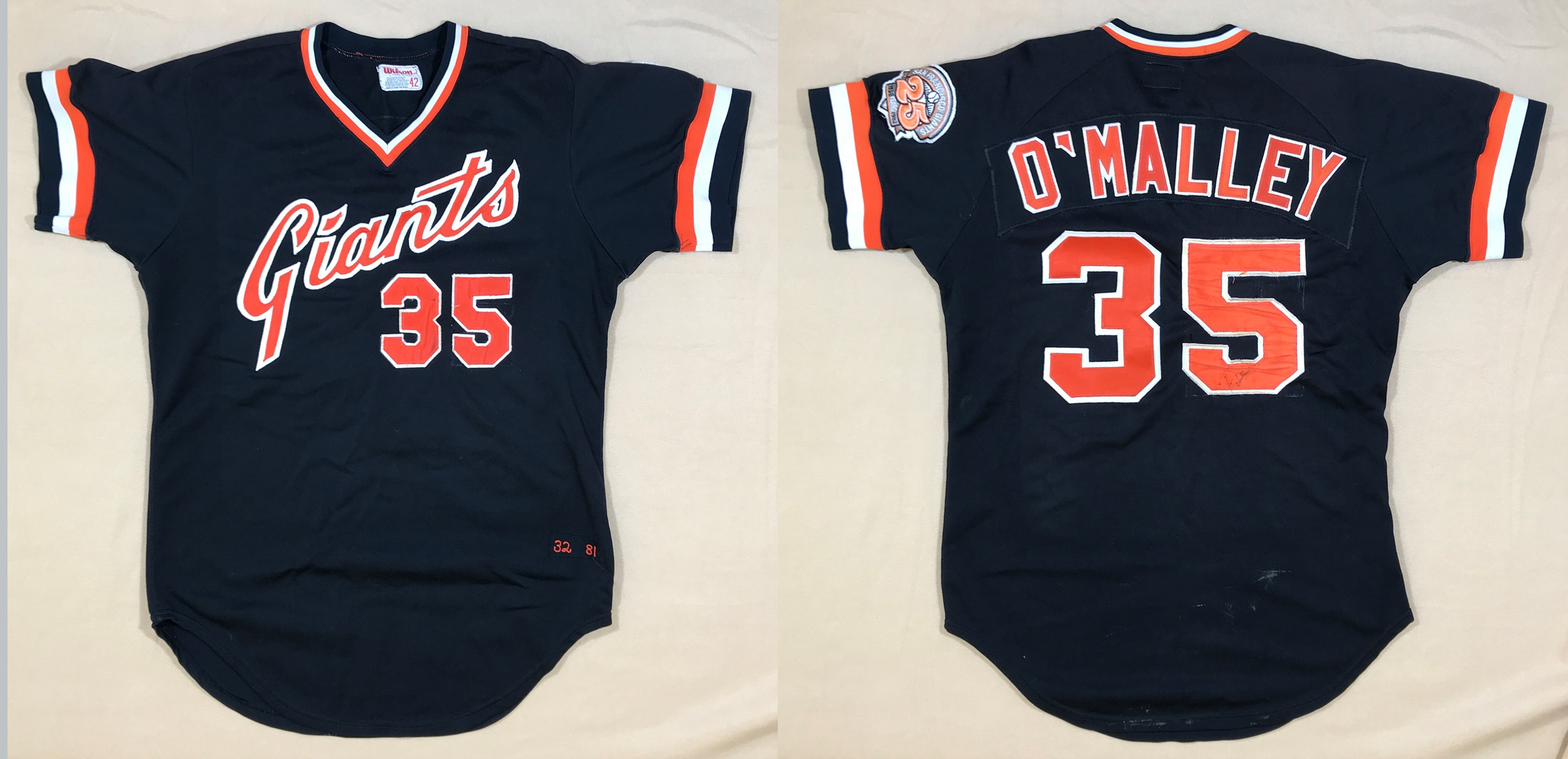 1982 San Francisco Giants #35 Tom O'Malley Game Worn Road Jersey photographed by William F. Henderson who may be contacted through his website thedream.shop.